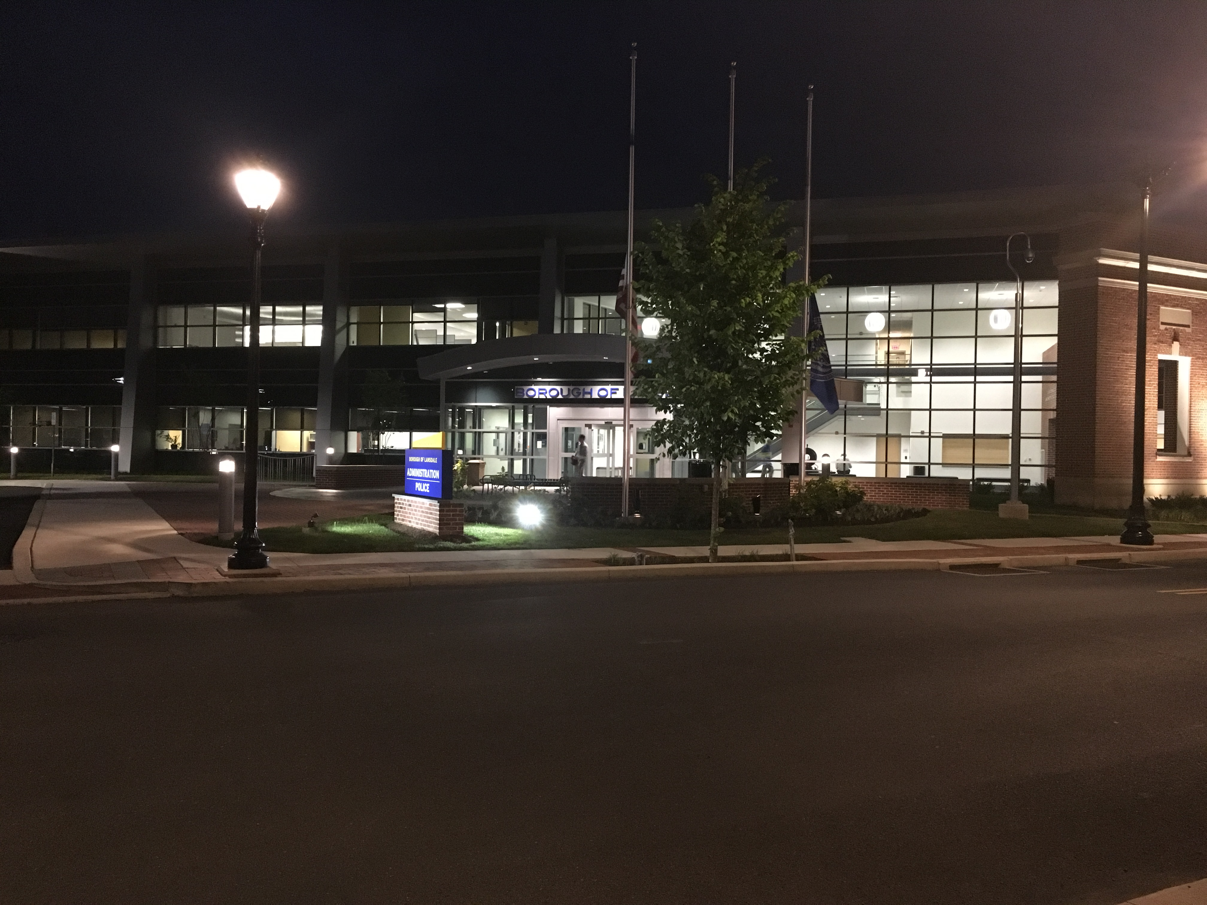 Lansdale Municipal building.